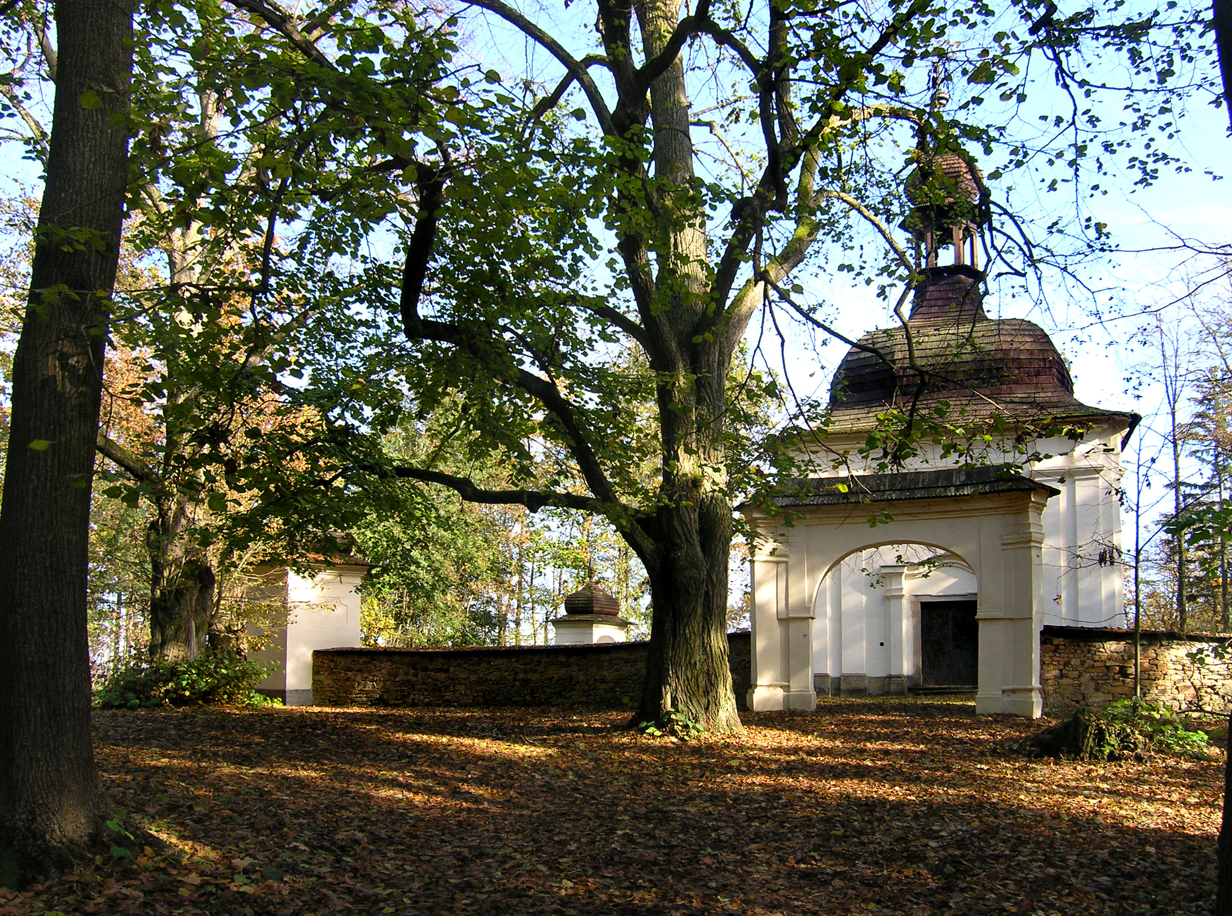 Chapel by Plandry village, Czech Republic